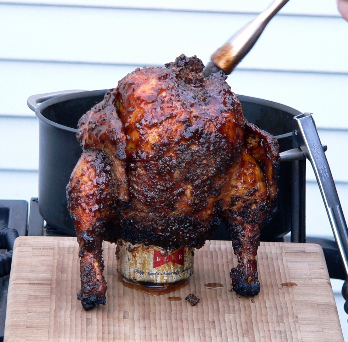 Robb's beer can chicken, Chicago